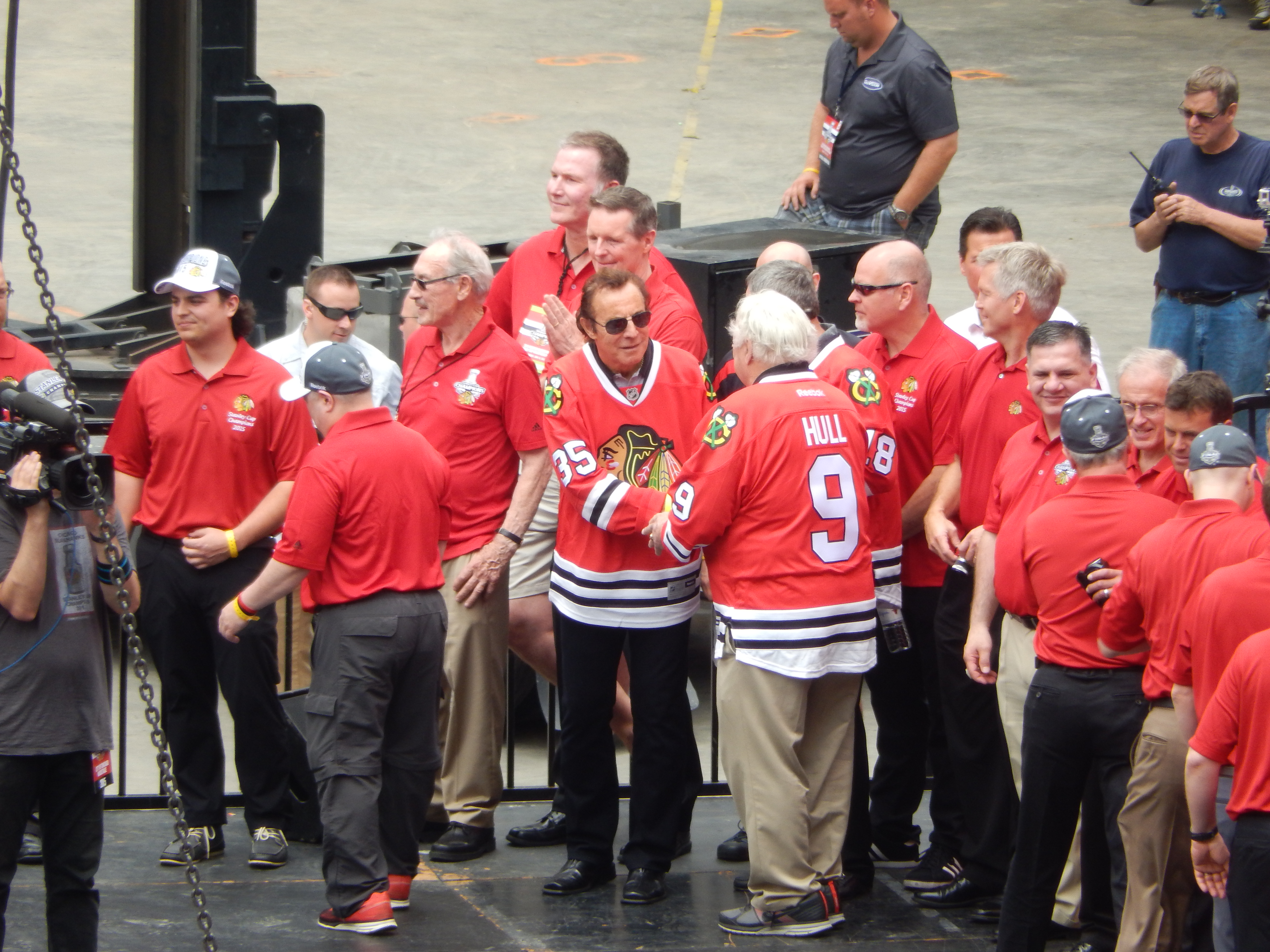 Chicago Blackhawks Rally 6/18/2015